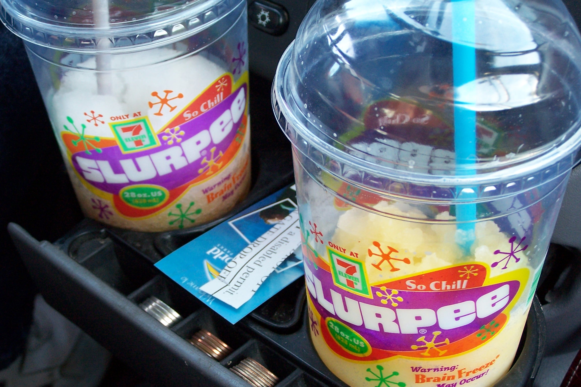 Two Slurpees in a car cupholder.